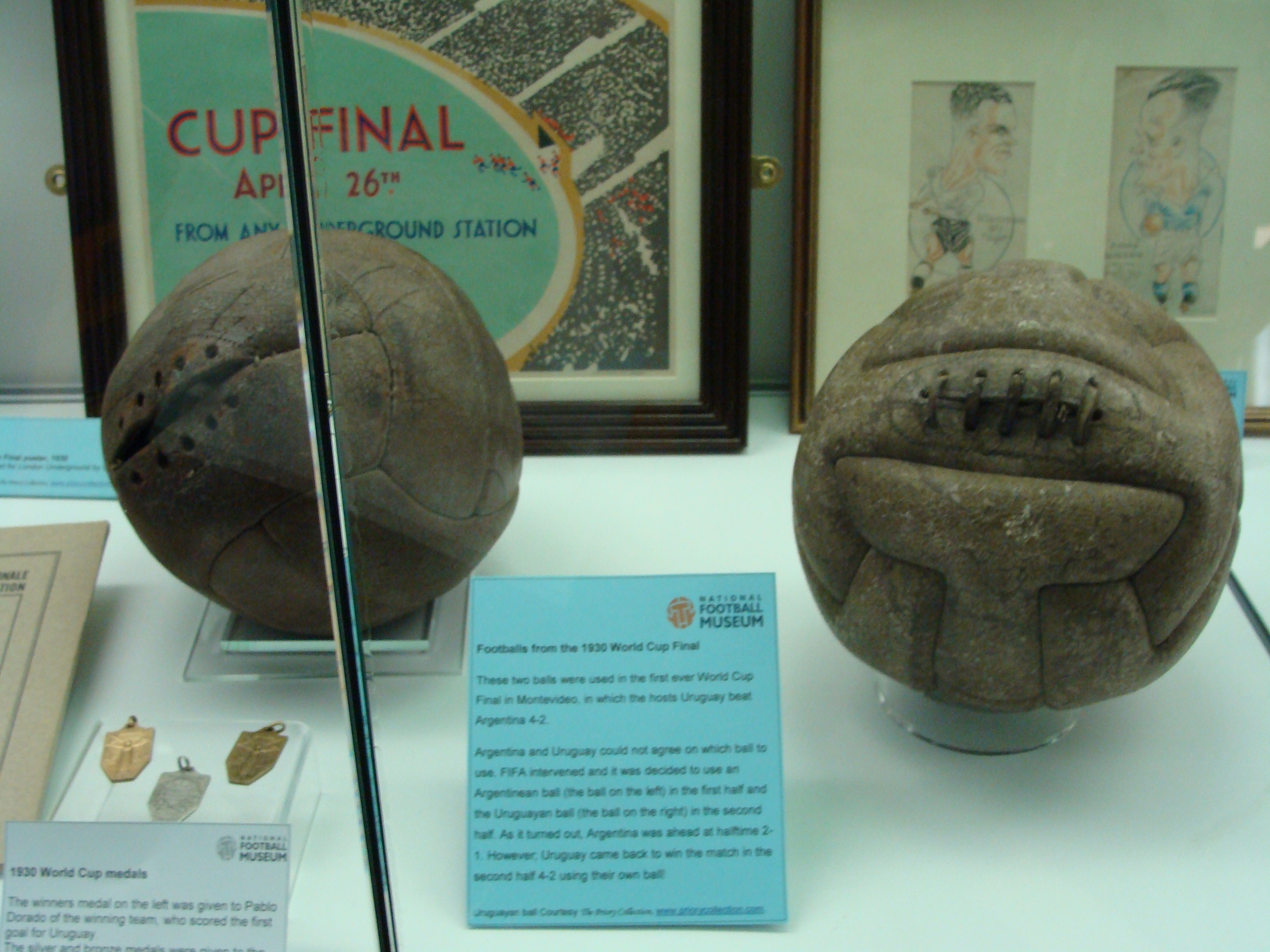 Balls from the 1930 World Cup final. File name has a mistake.